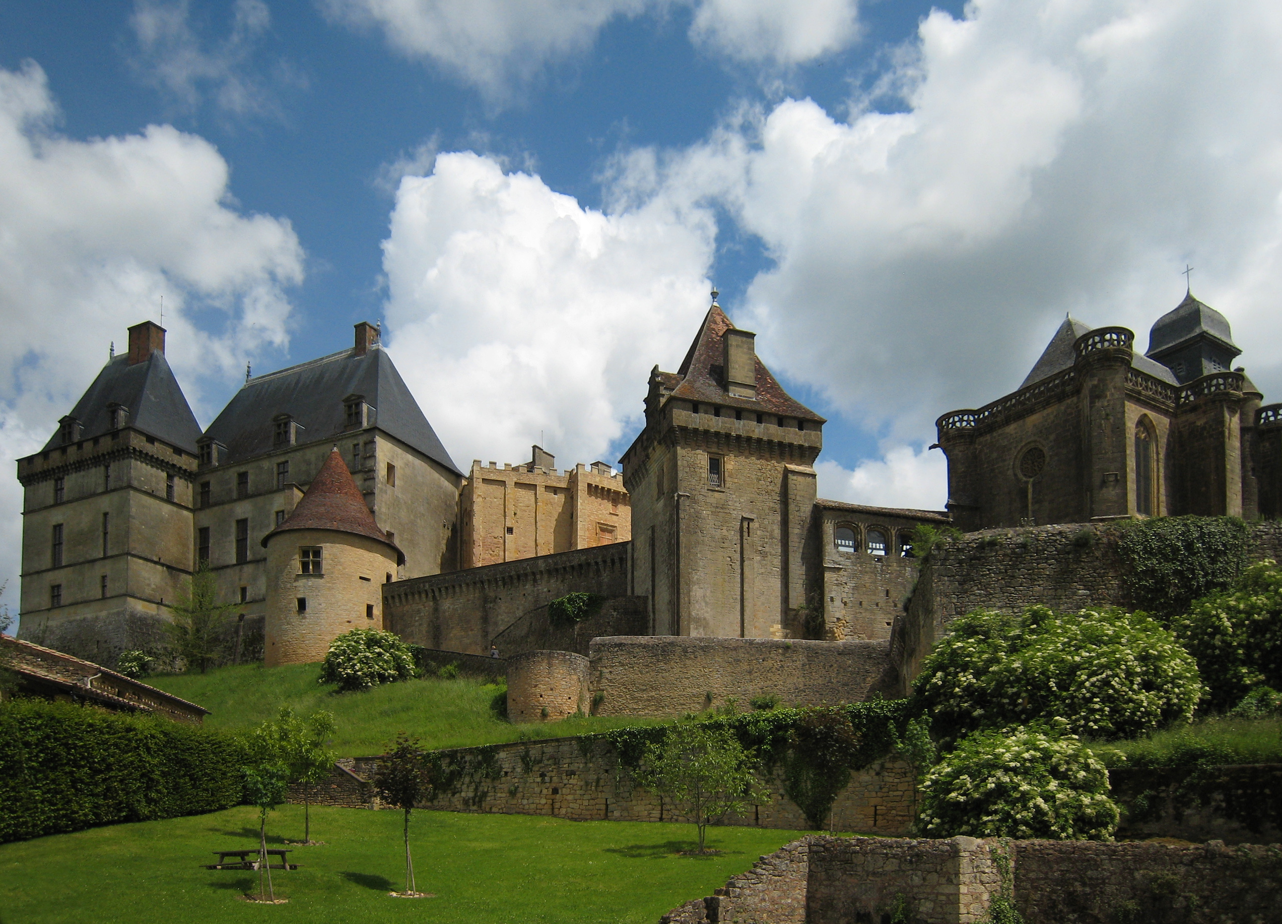 Chateau de Biron in the village of Biron, Département Dordogne/France.